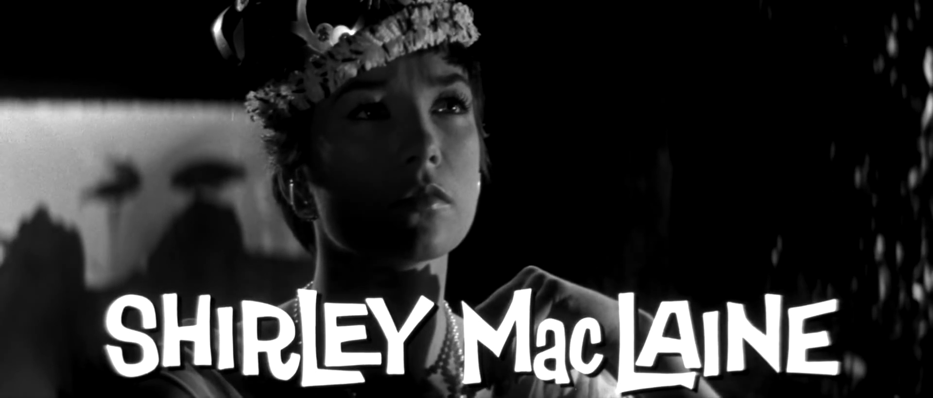 Screenshot of Shirley MacLaine in the trailer for the film The Apartment (1960).